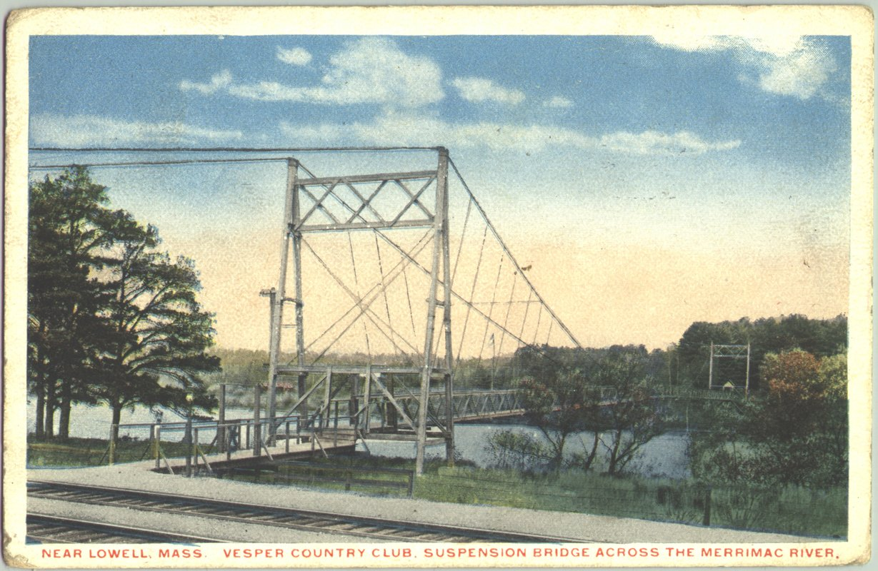 post card of the Vesper foot bridge, near lowell ma